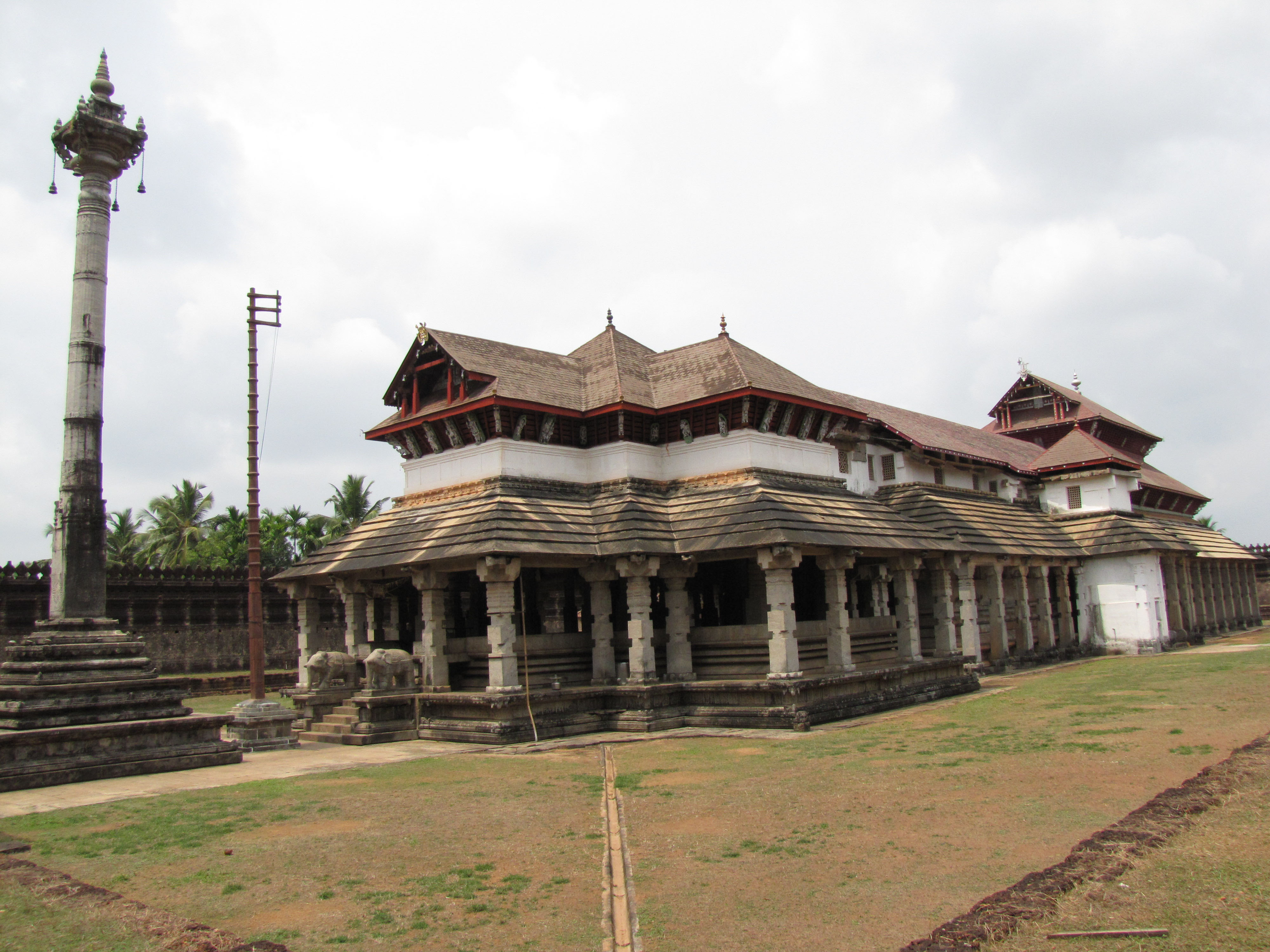 The left side view of 1000 Pillar Temple Moodbidri, Karnataka